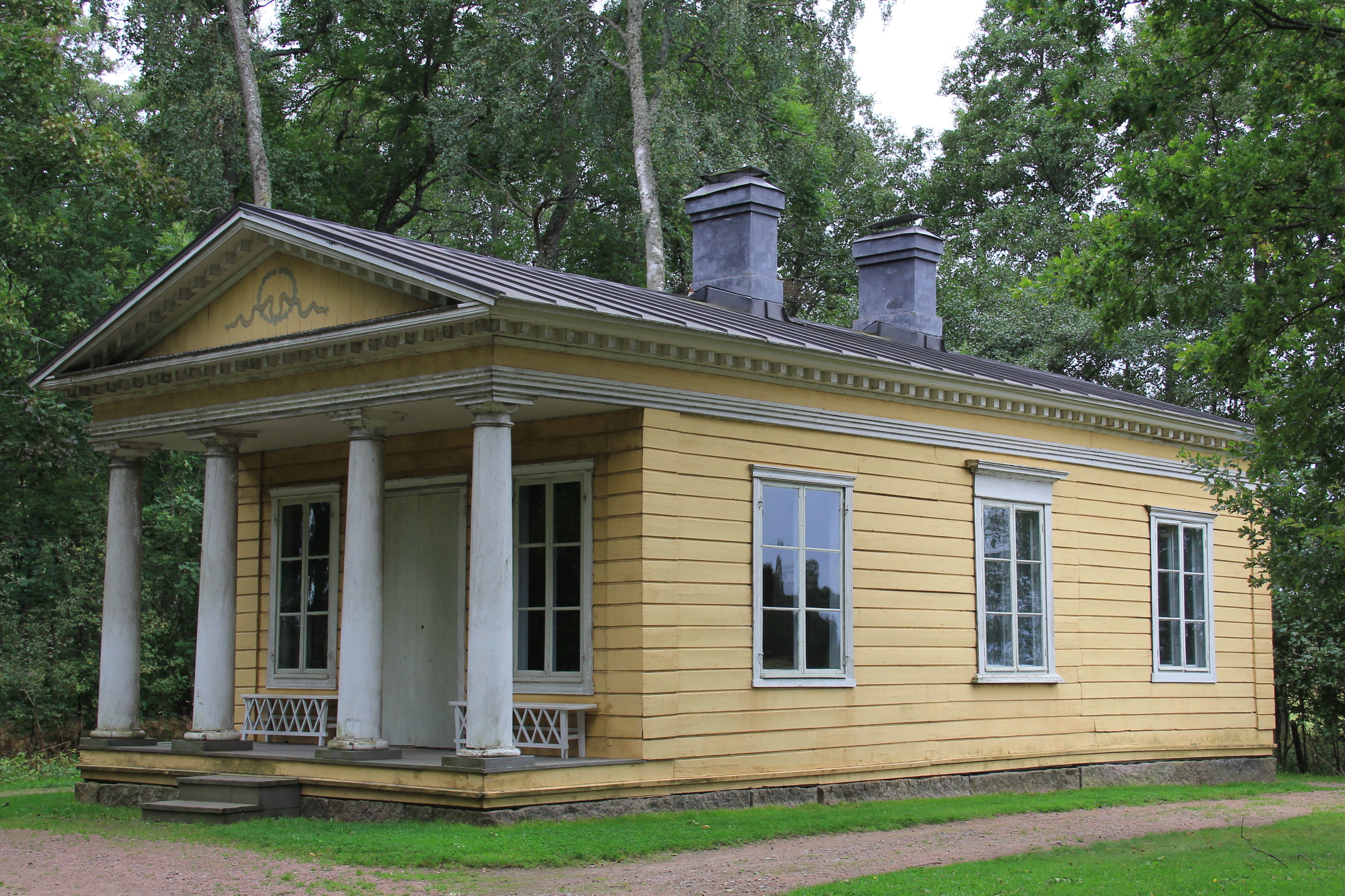 Louhisaari manor, Askainen, Masku, Finland. - Louhisaari bathbouse, completed in 1825. It was designed (probably) by architect Anders Fredrik Granstedt (1800-1849) and built by Carl Gustaf Mannerheim (1797-1854) as his personal bathhouse.